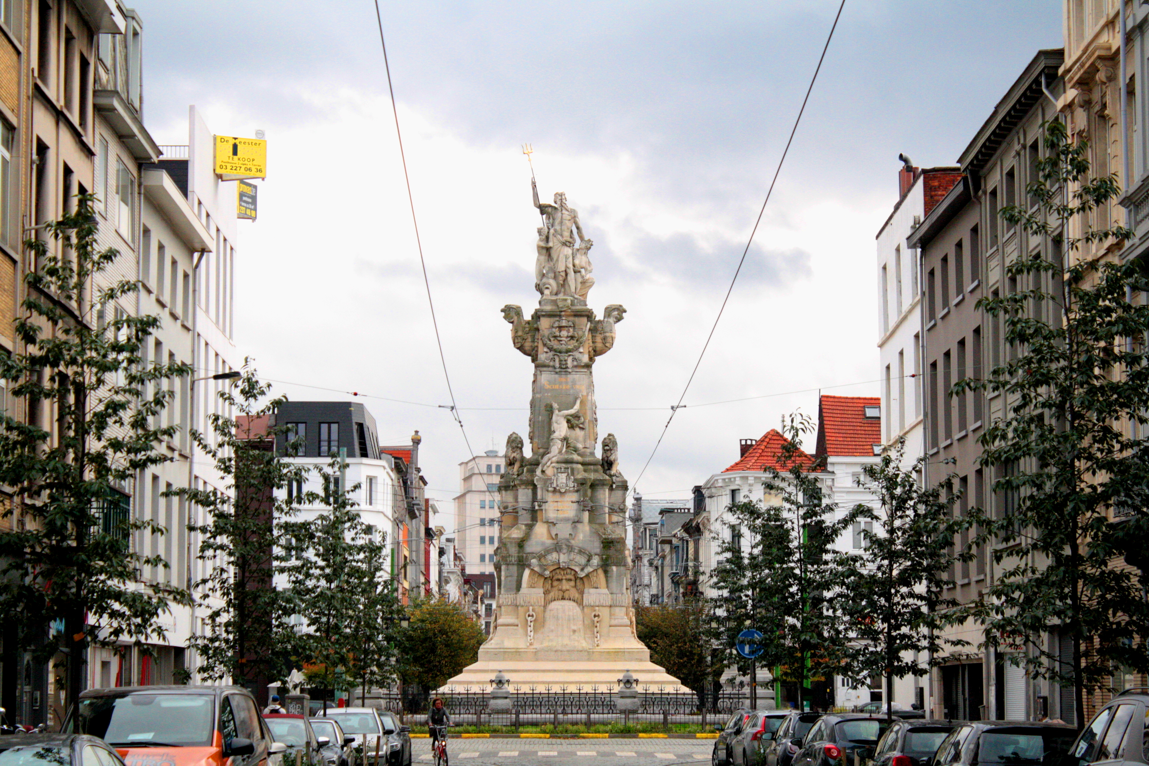 The Marnixplaats seen from the Geuzenstraat (postal code 2000), picture taken on the 23d of Oktober 2017. This photo of immovable heritage has been taken in the Flemish Region